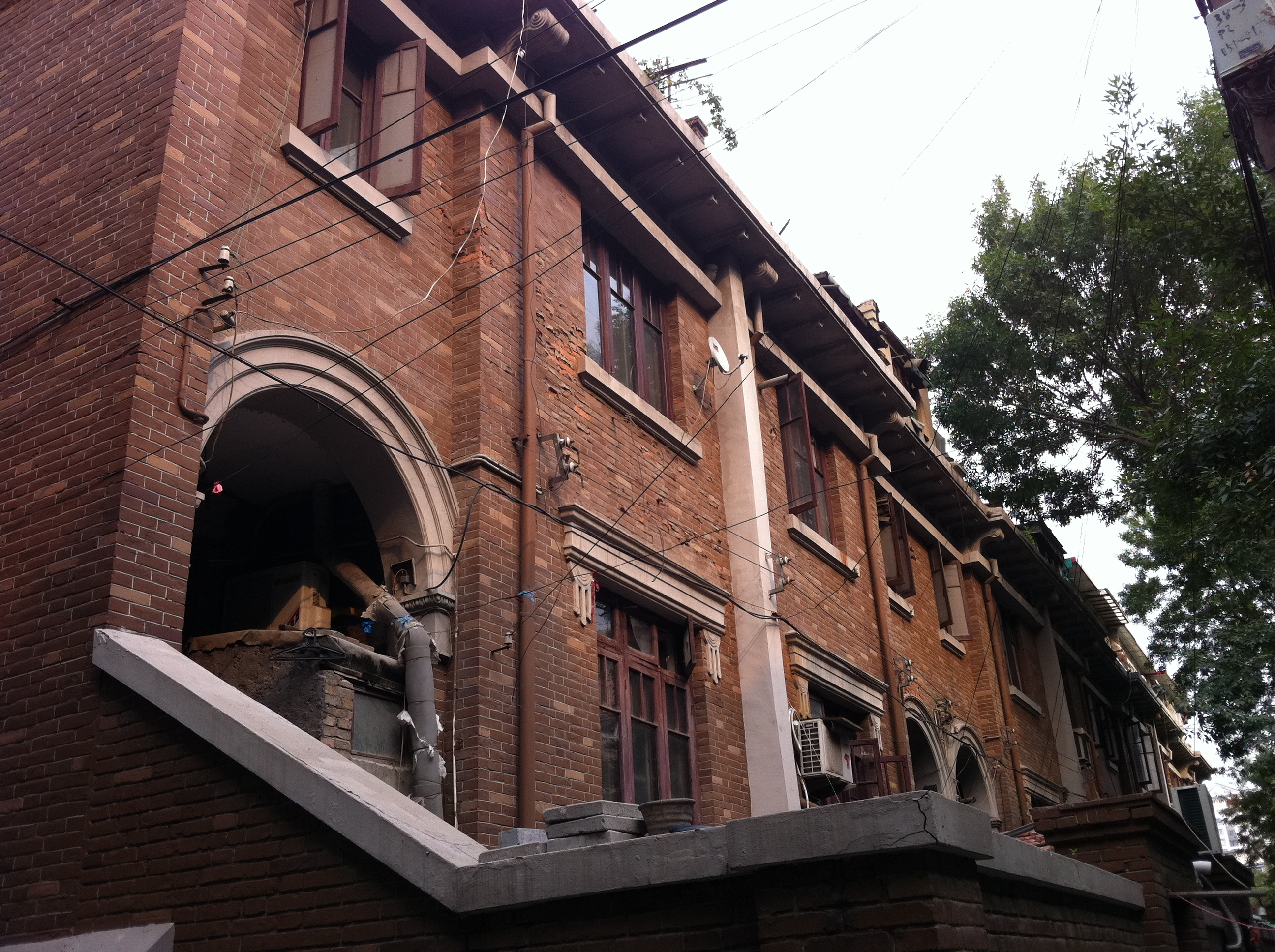 Shaanxi Lu No. 31–47